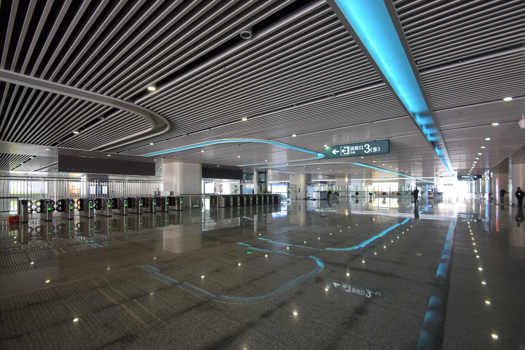 Exit Corridor of Foshan Xi (West) Railway Station